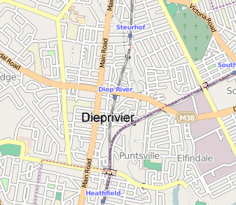 This map of Diep River in Cape Town was created from OpenStreetMap project data, collected by the community This map may be incomplete, and may contain errors. Don't rely solely on it for navigation.